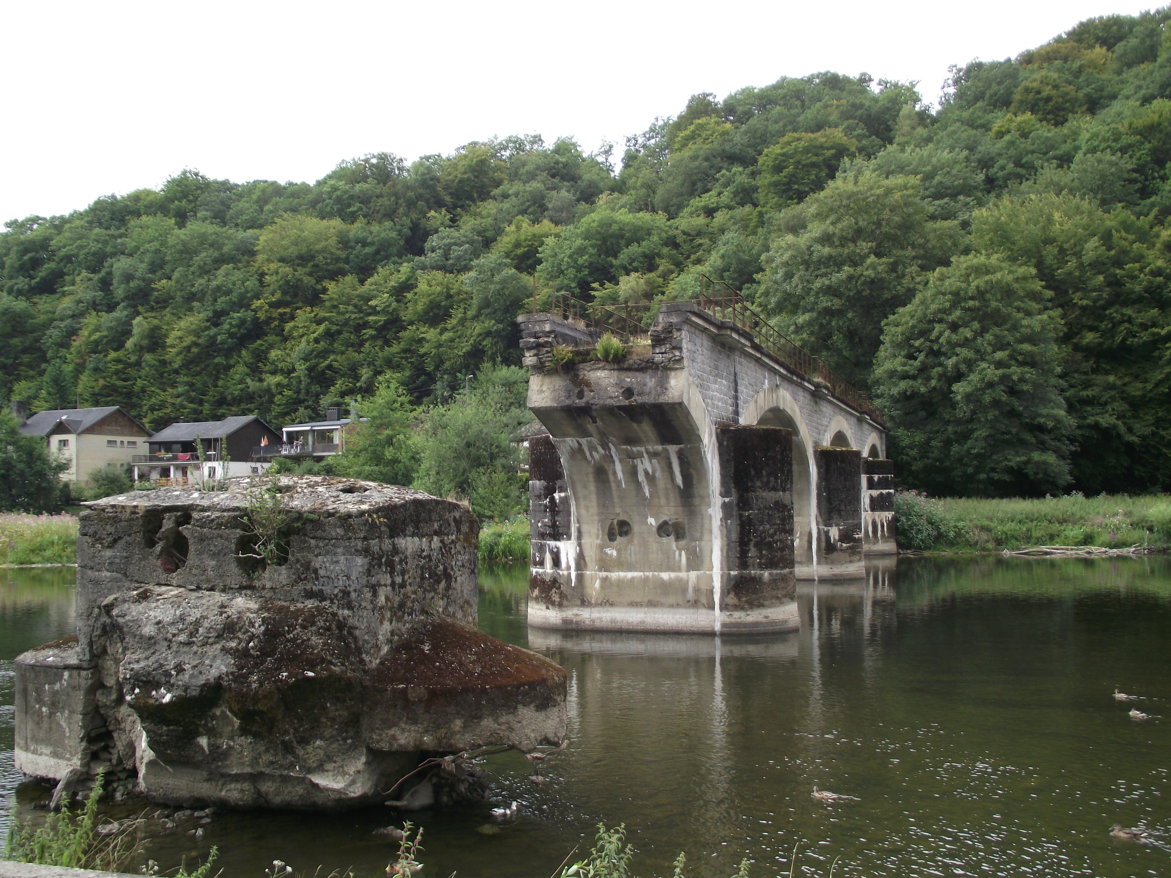 Old vicinal railway bridge over the semois river at Bohan. This bridge was opened in 1935 and destroyed at the end of the war 1944 and never rebuild.